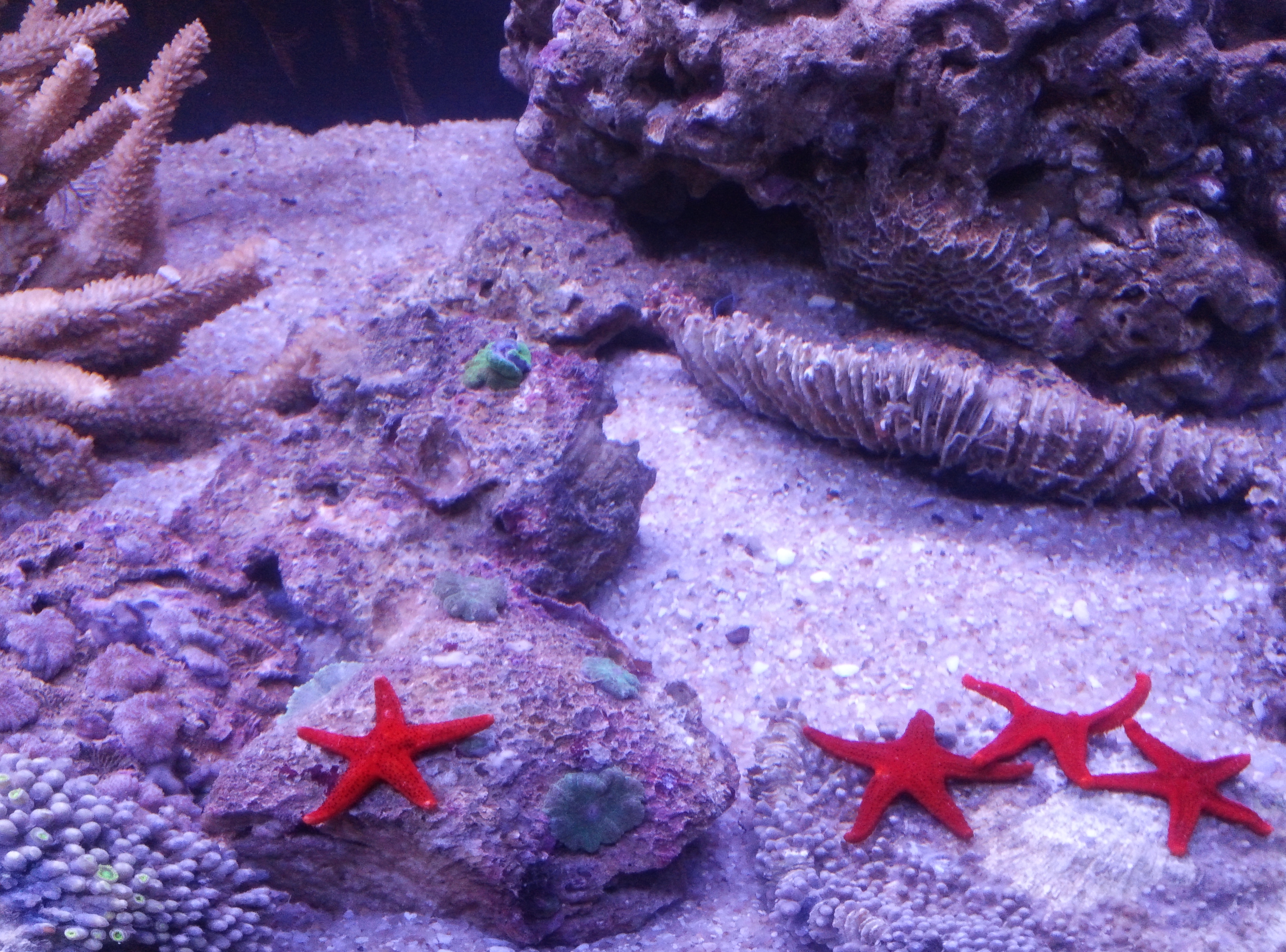 Thuỷ cung Đầm Sen 2013